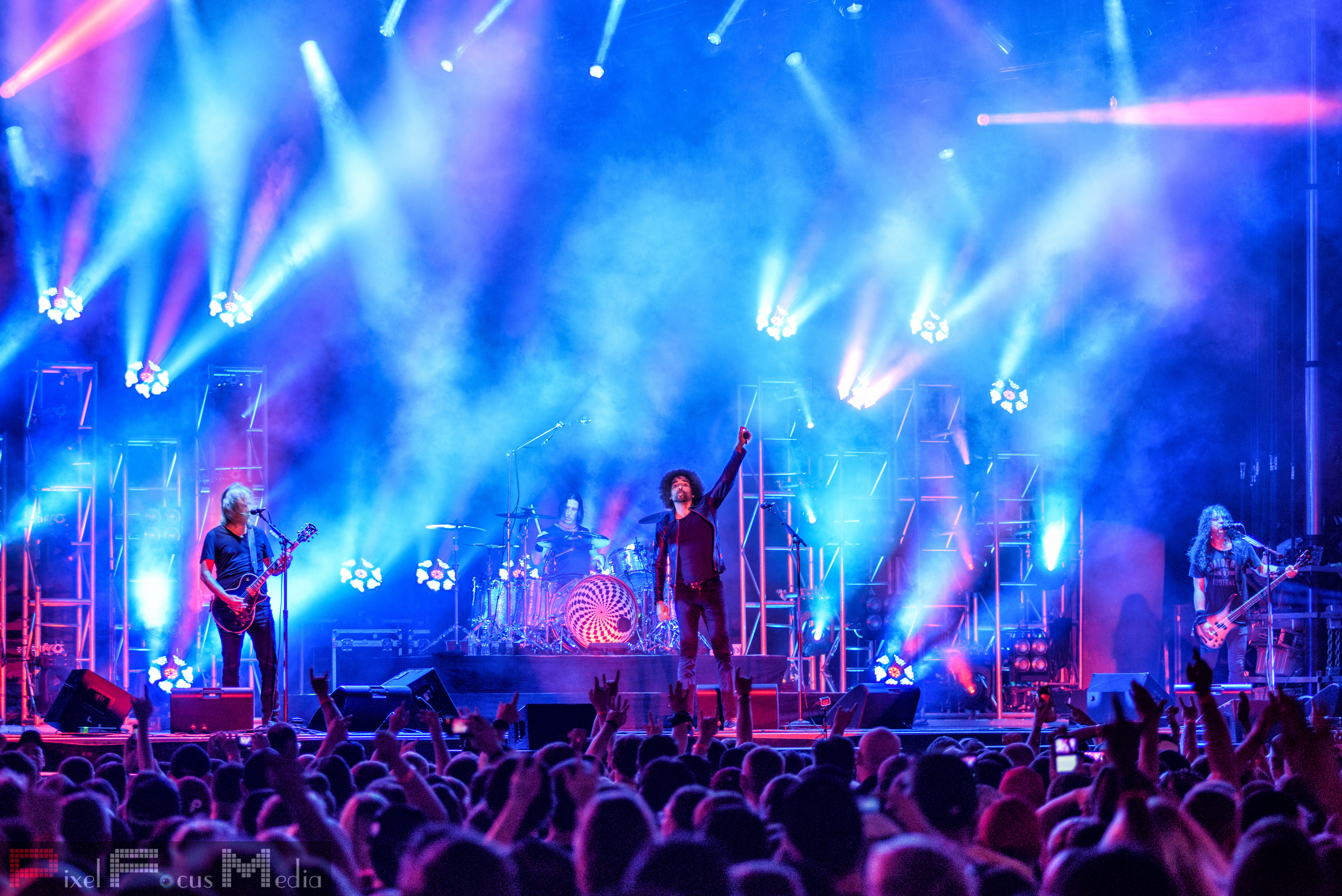 Alice in Chains live in 2016